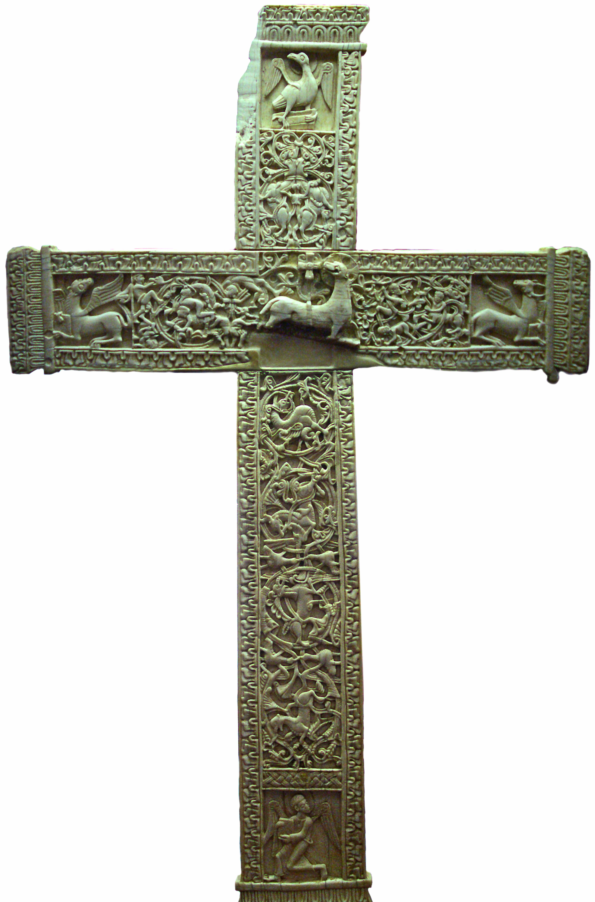 Romanesque Christ in ivory donated by the king Fernado I of Leon and his wife, the queen Doña Sancha to the monastery of San Isidoro de Leon (reverse)